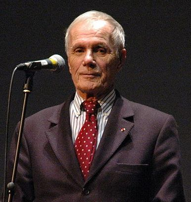 Pierre Schoendoerffer at the Cinémathèque française